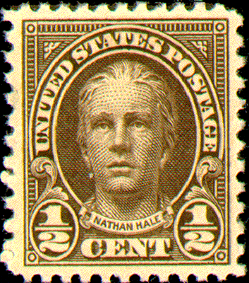 Image appearing on varieties of the ½¢ Nathan Hale U.S. Postage stamp issued in 1925 and 1929. Flat Plate Press (Perf 11). First Day of Issue: 4/4/1925. Scott Catalog Number 551. Rotary Press (Perf 11 x 10½). First Day of Issue: 5/25/1929. Scott Catalog Number 653. Likeness is from statue by Bela Lyon Pratt.